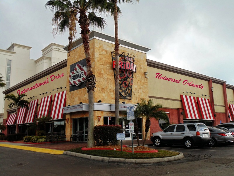 TGI Friday by Universal